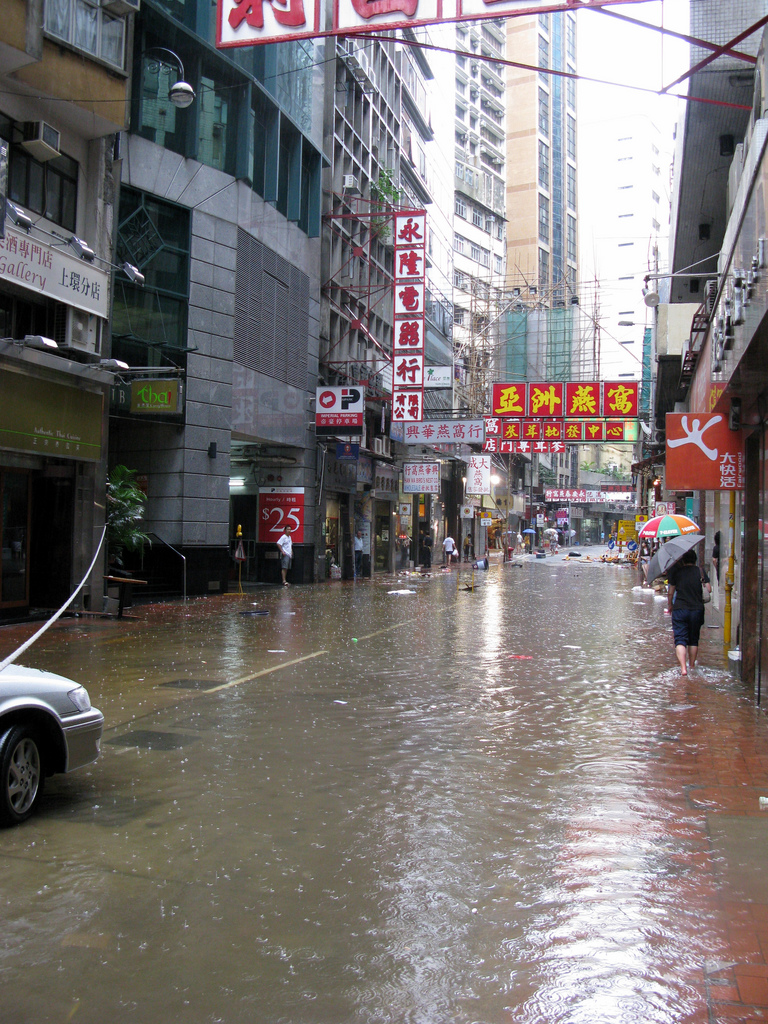 HK Sheung Wan Heavy Rain on 2008/06/07